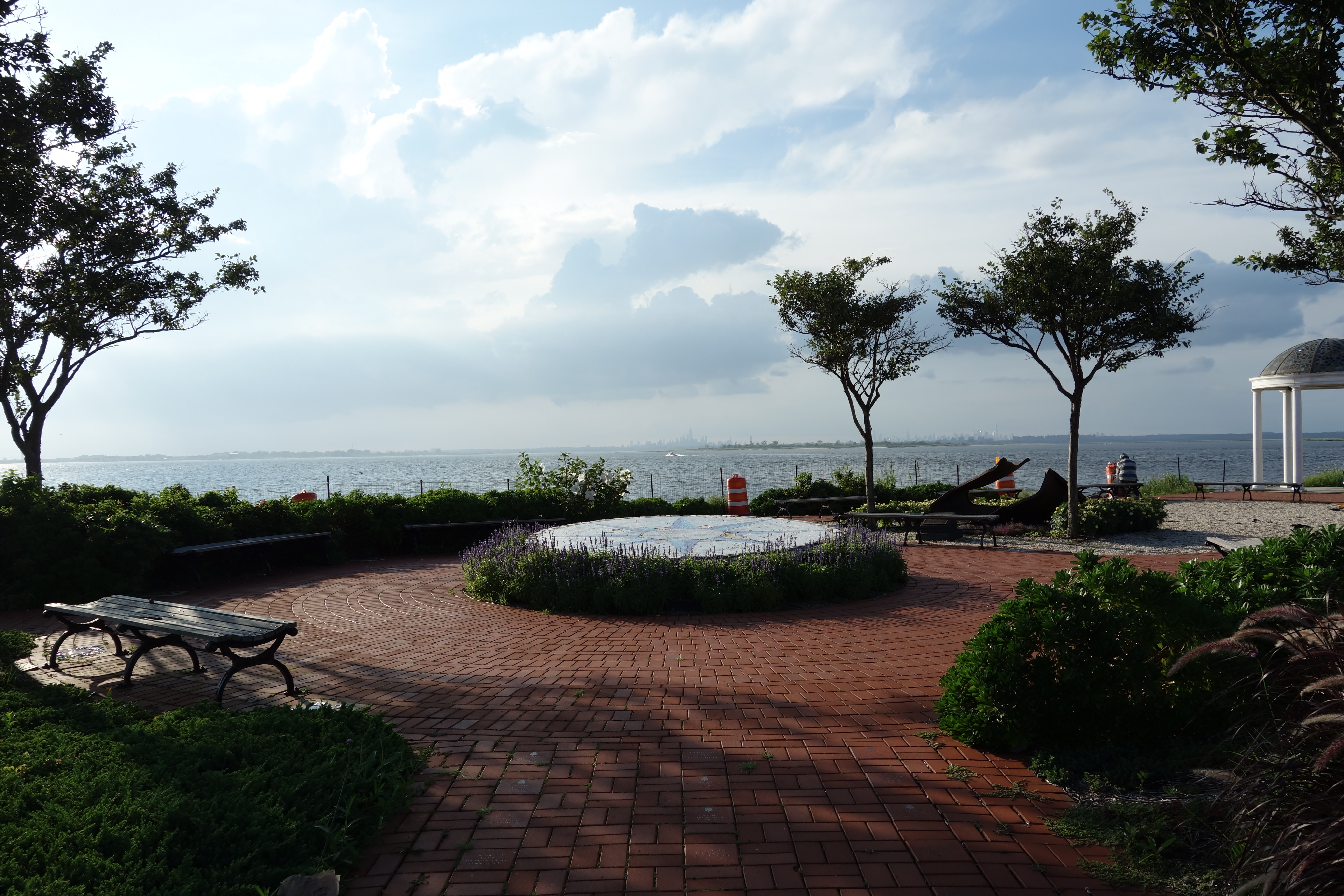 Inside Tribute Park, along Jamaica Bay at Beach Channel Drive and Beach 116th Street in Rockaway Park, Queens. The park was opened in 2005 as a memorial or "tribute" to the September 11th attacks. Pictured is the mosaic compass at the center of the park.